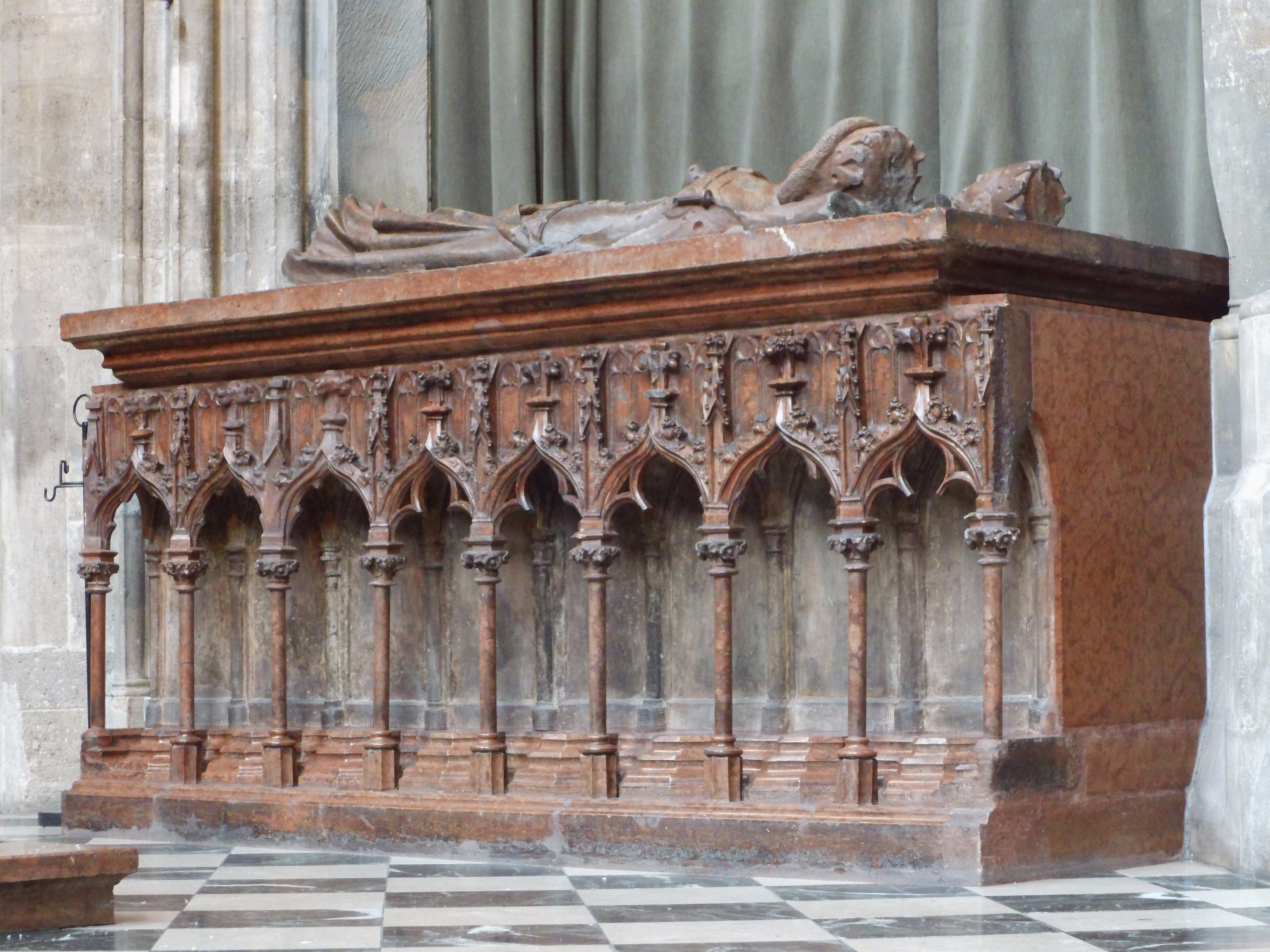 Cenotaph of Rudolf IV, Duke of Austria